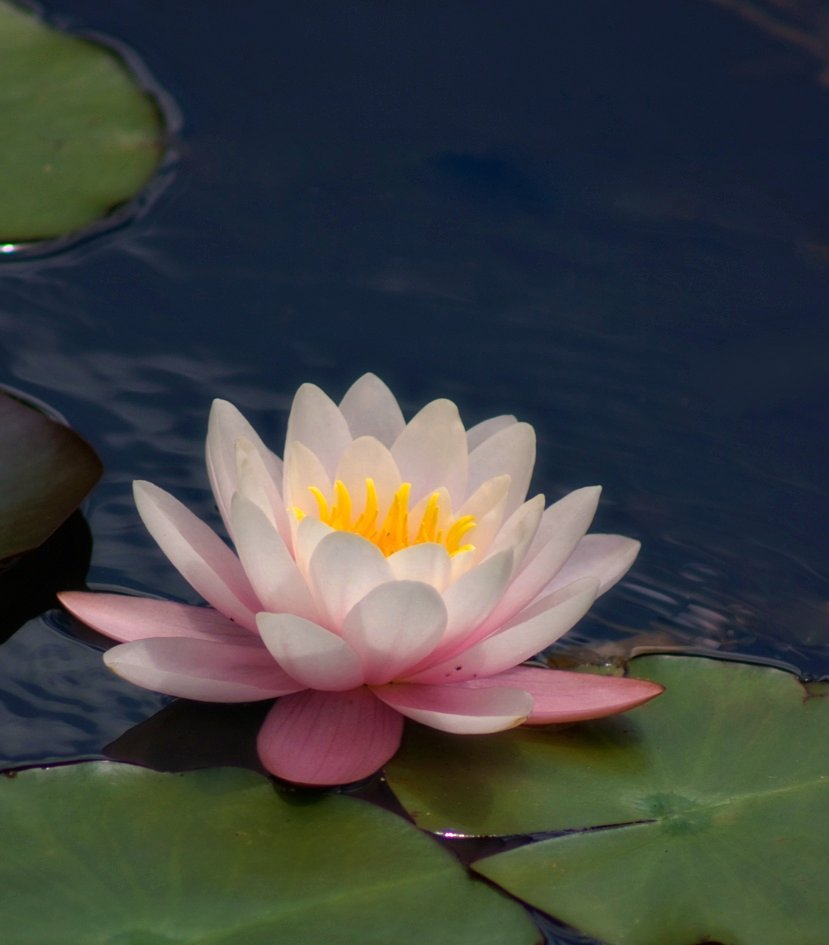 We decided to take the dog for a walk yesterday morning and I noticed that the water lilies were in bloom again.